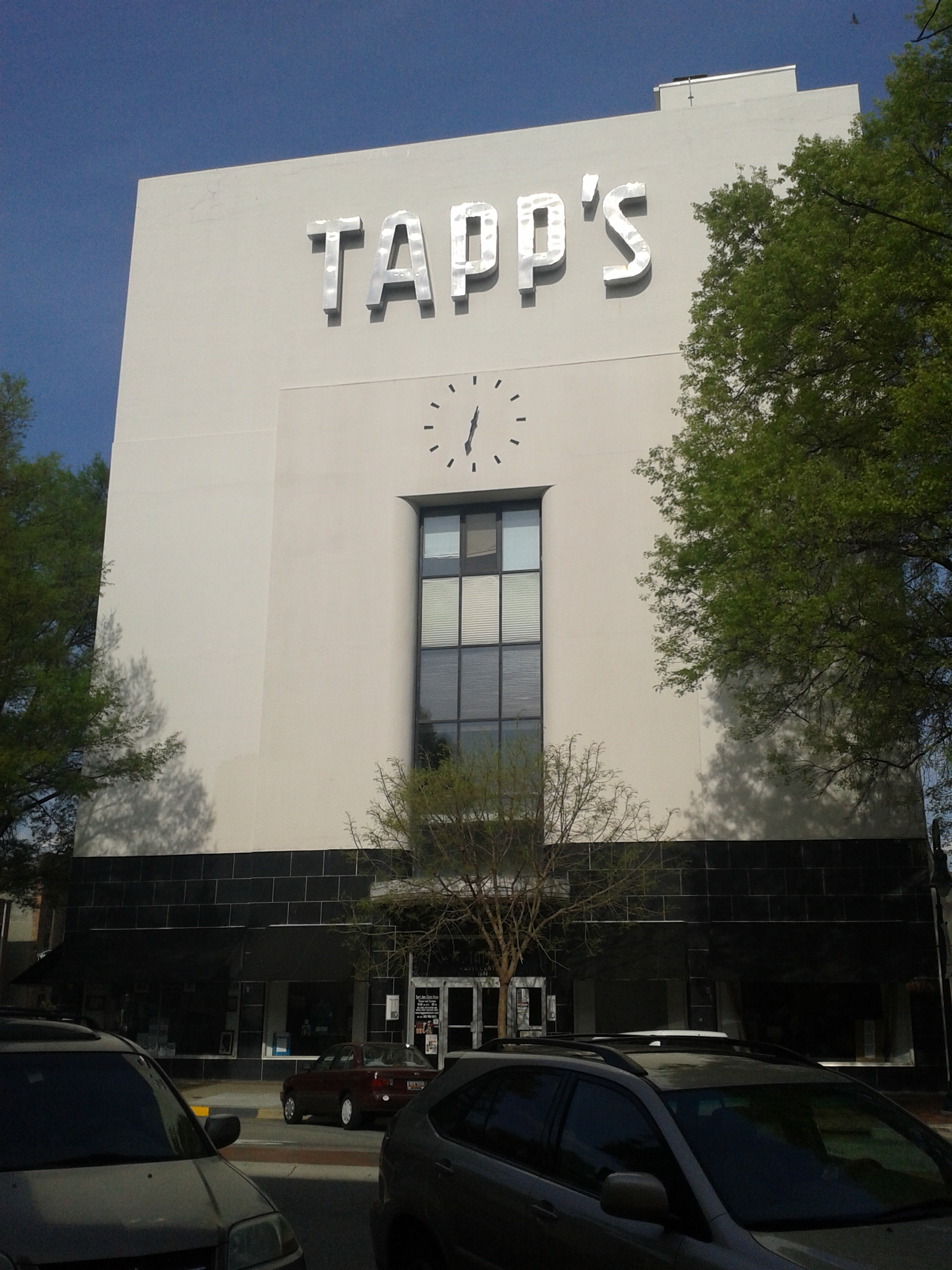 The former Tapp's Department Store Building at 1644 Main Street in Columbia, South Carolina.